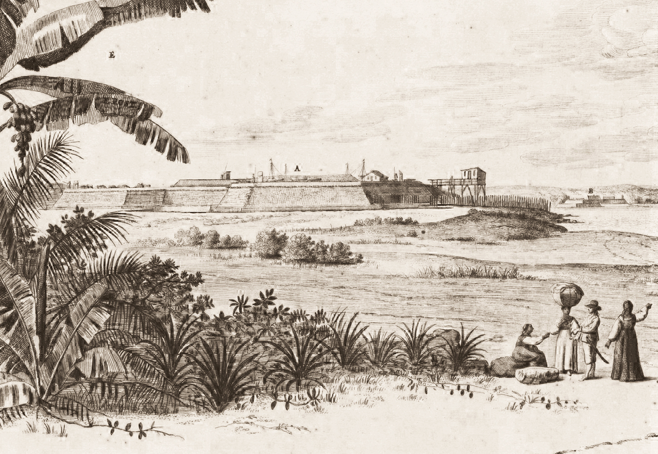 Ostium fluminis Paraybae - Frans Post (1647) - Detail of the Cabedelo and Santo Antônio Forts